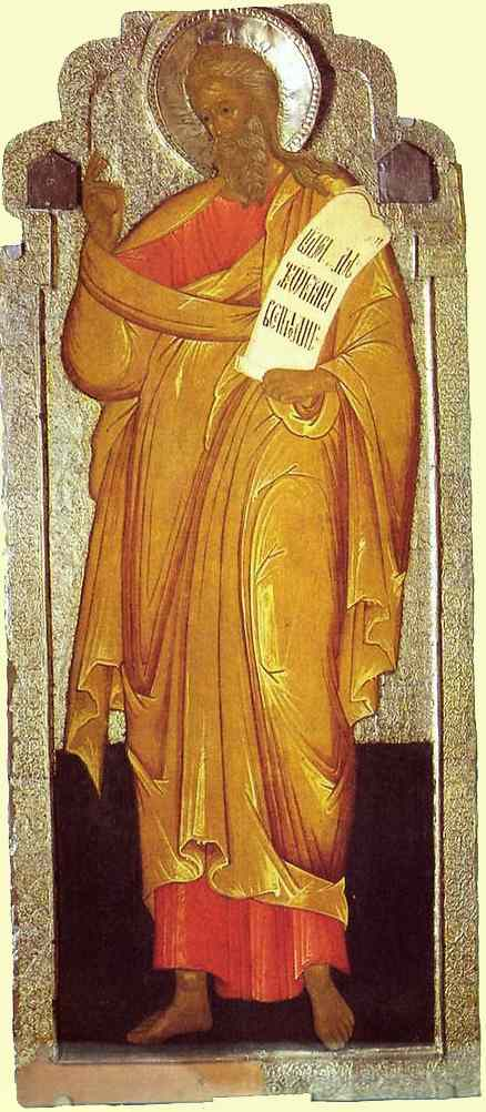 Abraham. Russian icon. 198 x 89 cm. Andrei Rublev Museum of Early Russian Art, Moscow, Russia.